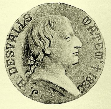 Joan Antoni Desvalls (Barcelona 1740 - 1820), marquis of Llupià, el Poal, and Alfarràs, and scientist